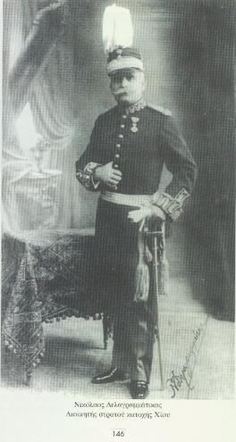 General N. Delagrammatikas From the site of Vrontados Gimnasium